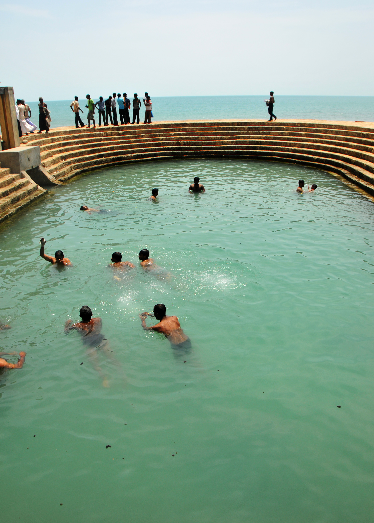 This is the mineral water spring called Keerimalai Springs reputed for its curative properties. Located next to the Naguleshwaram Sivan temple. In Tamil Keerimalai means Mongoose-Hill.